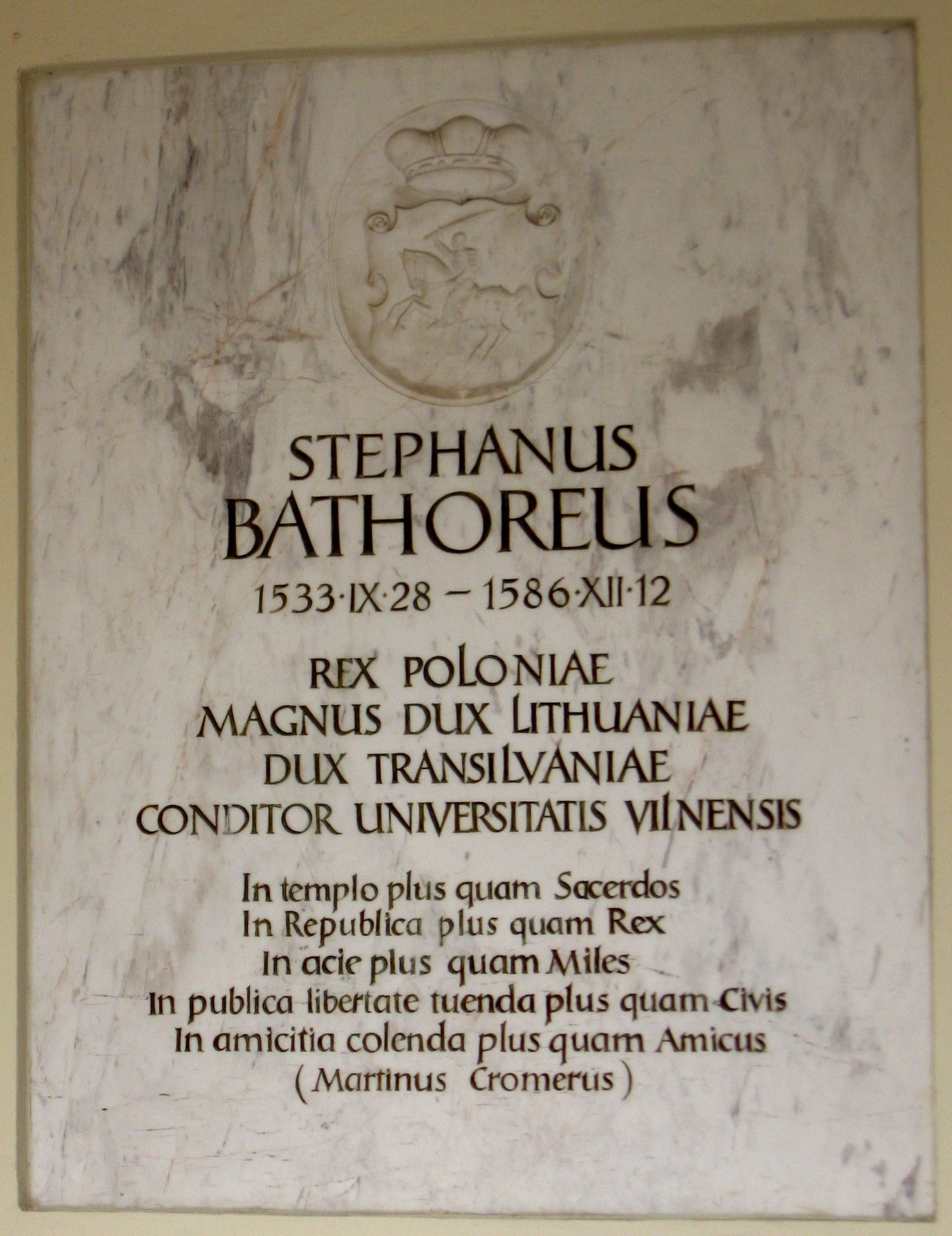 Panel by founder of university of Vilnius in the campus Stephen Báthory with a vers of praise by Martin Cromer